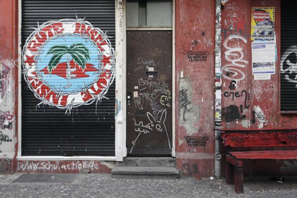 besetztes Haus in der Mansteinstraße auf der Roten Insel, Berlin